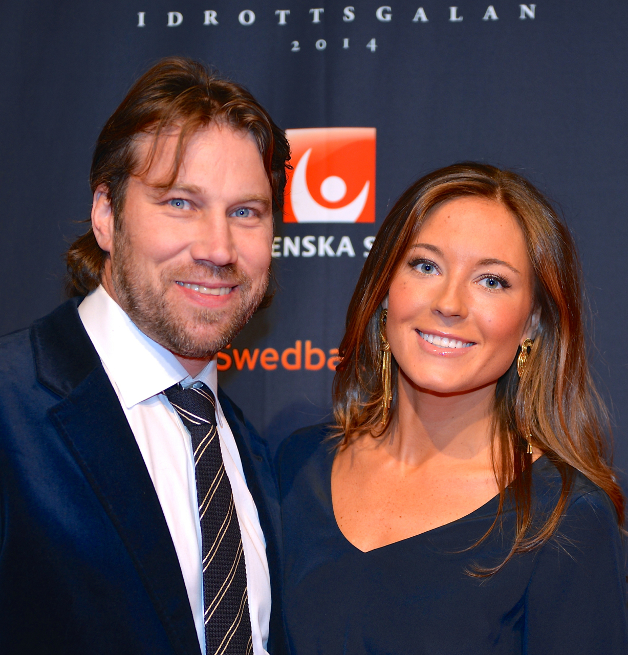 Peter Forsberg at the Swedish Sports Gala at the Ericsson Globe in Stockholm, January13, 2014.